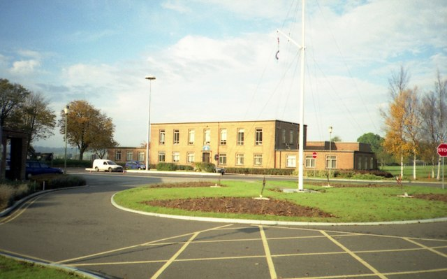 RAF North Luffenham Station Headquarters Building